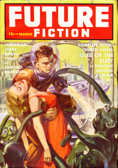 March 1940 cover of the Future Fiction magazine, volume 1, issue 2.